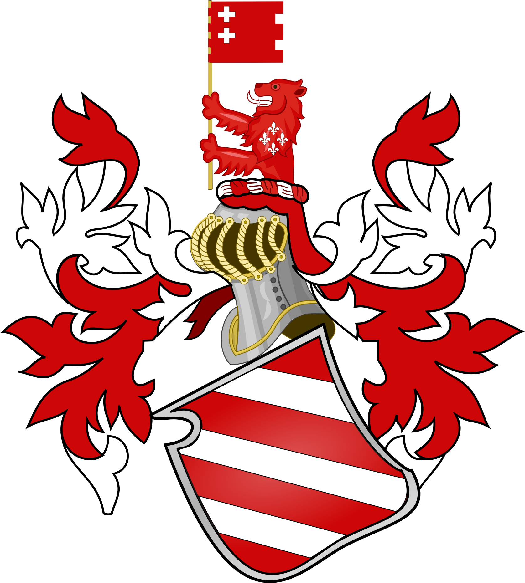 Coat Of Arms Serbian house Of Kosače